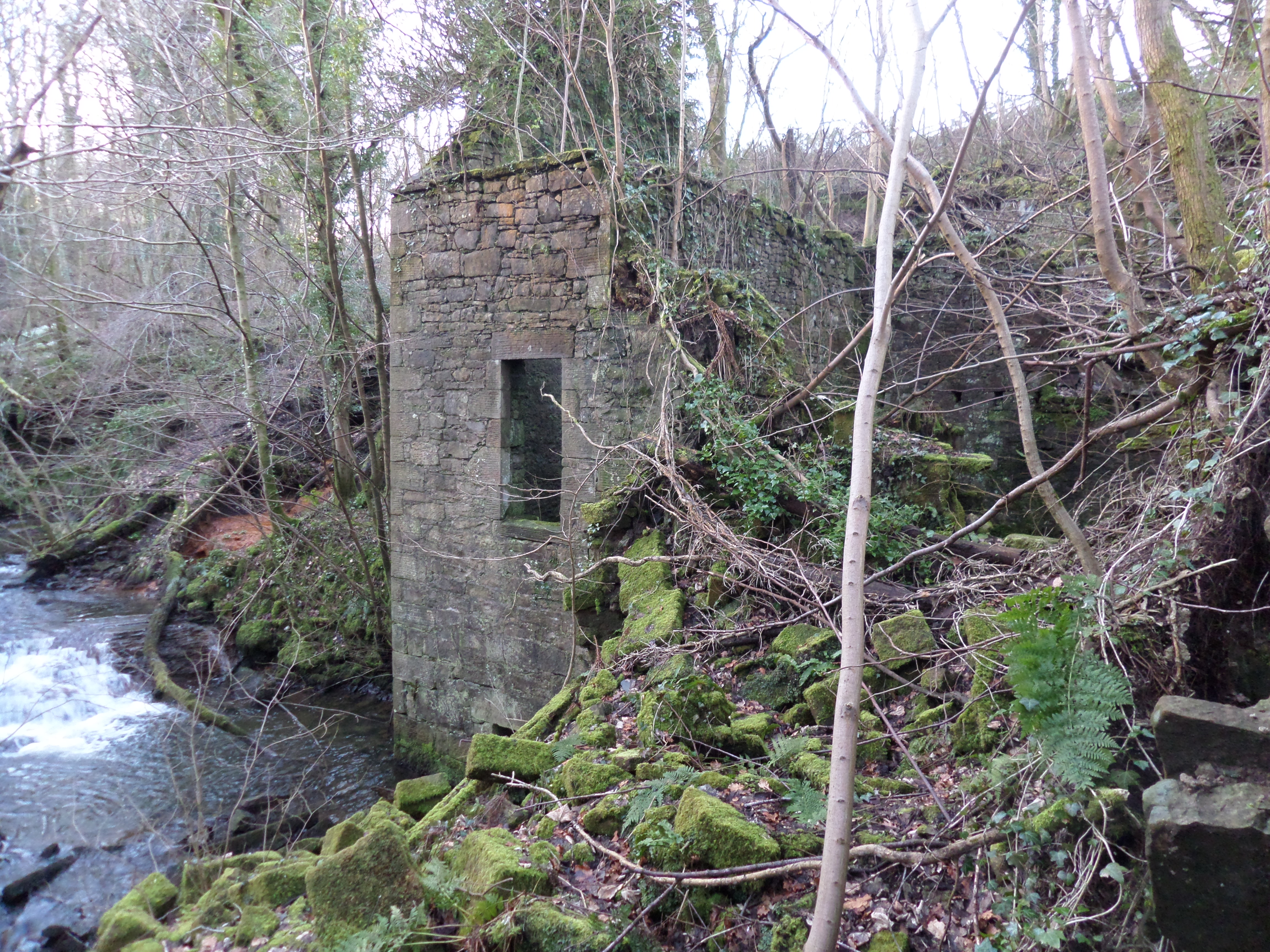 Millbank Mill ruins, Lochwinnoch - water wheel housing and the burn. Ceased operating in the 1950s.